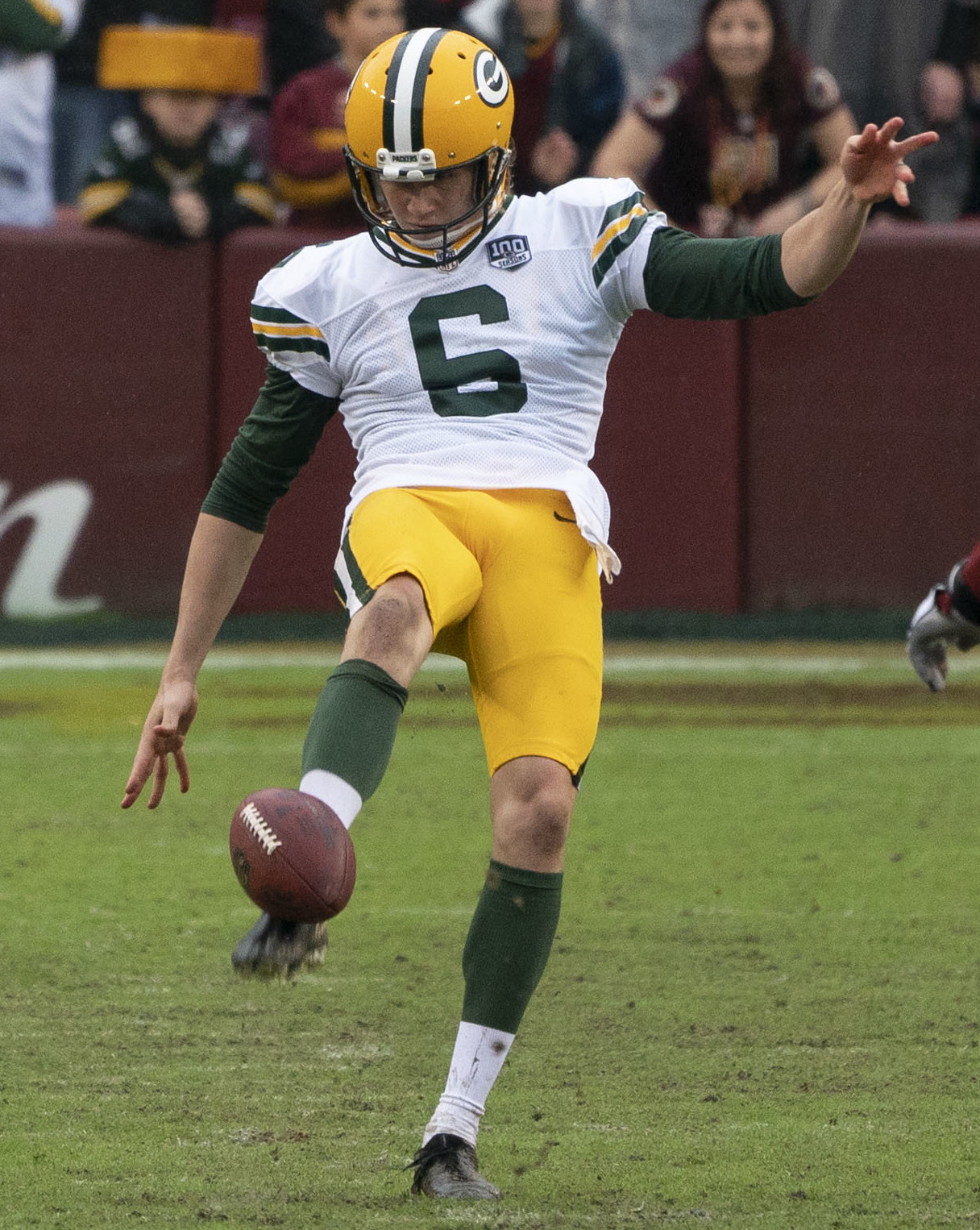 JK Scott of the Green Bay Packers punts a ball during a 2018 game against the Washington Redskins.